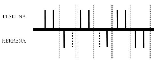 Short score for txalaparta